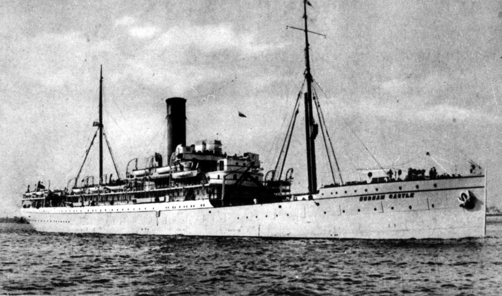 8,217 GRT Union-Castle liner Durham Castle, built by Fairfield at Govan in 1904. Union-Castle sold her to be scrapped at Rosyth in August 1939, but the Admiralty took her over on 2 October. In 1940 she was sunk by a torpedo or mine off Invergordon, Scotland. (From description supplied with photograph).